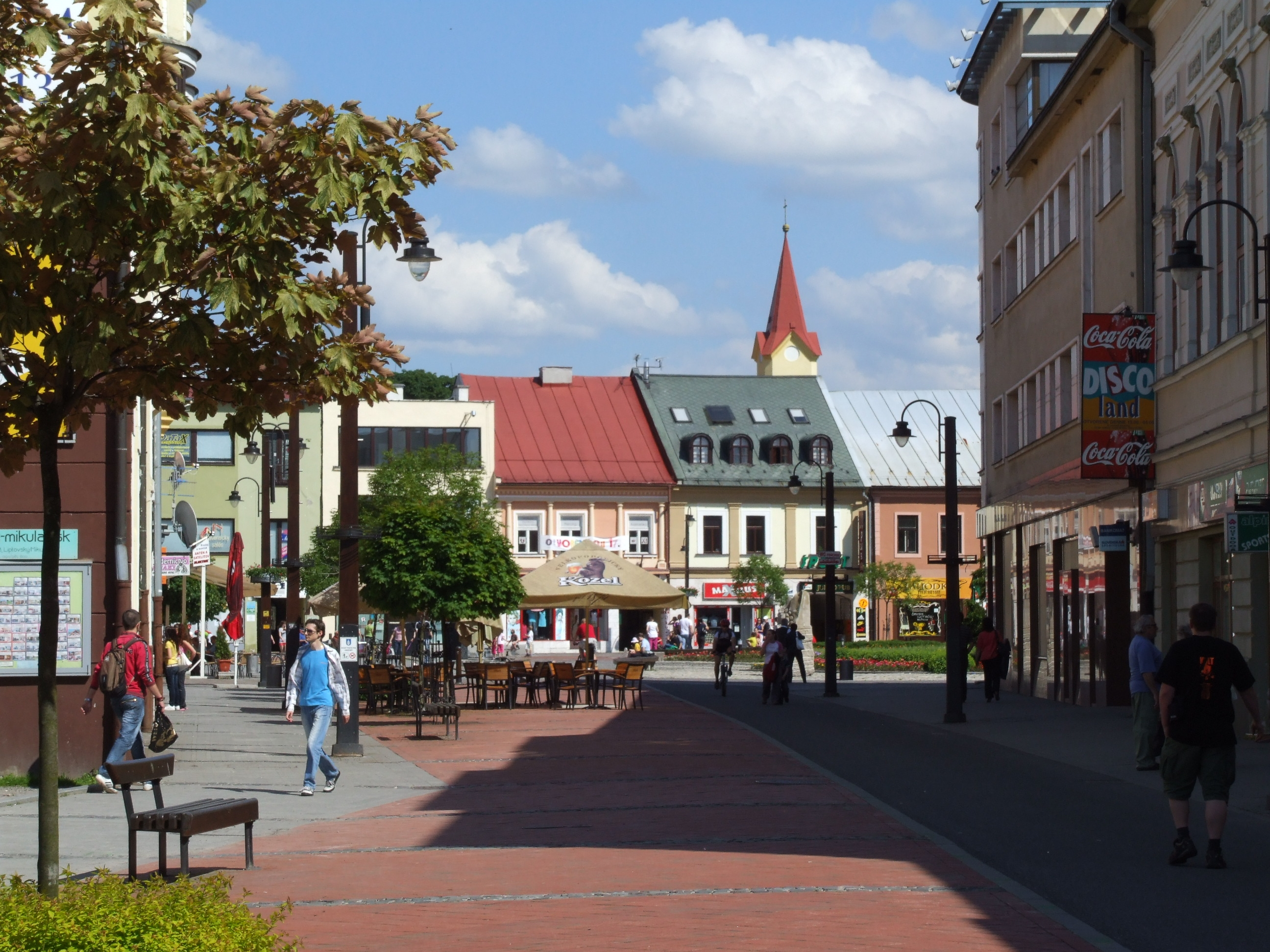 Liptovský Mikuláš, Slovakia - pedestrian zone Ślůnski: Liptovský Mikuláš, Słowacyjo - pjeszo sztrefa